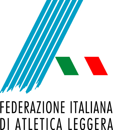 FIDAL logo